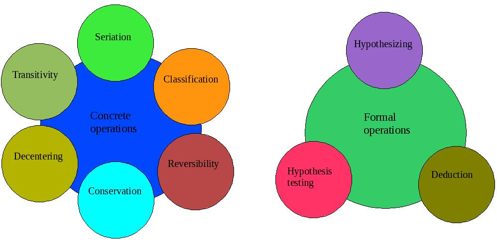 Mental operations according to Jean Piaget. Based on information from Ginsburg H., Opper S. (1979). Piaget's Theory of Intellectual Development. Prentice Hall, p. 152